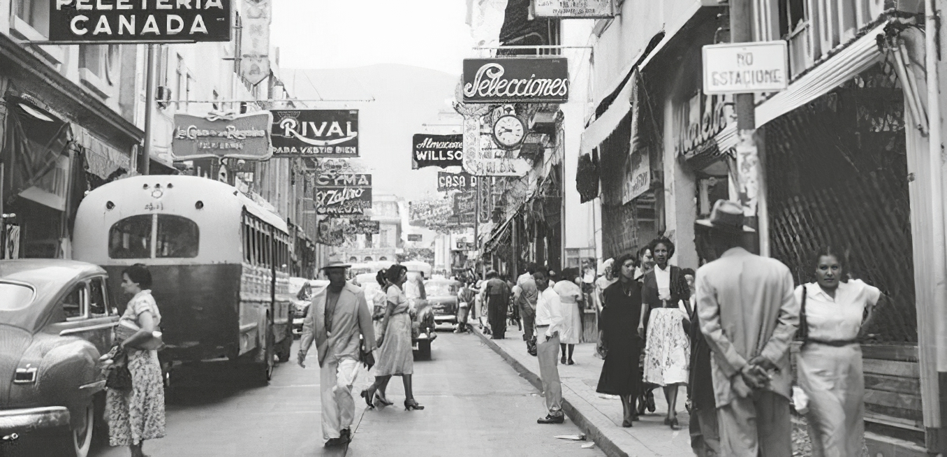 Esquina de Gradillas a Sociedad, Caracas, 1950. Colección Pozueta, Archivo Audiovisual de la Biblioteca Nacional.